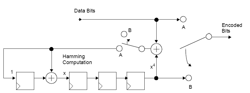 Cyclic Hamming Encoder, Block Diagram